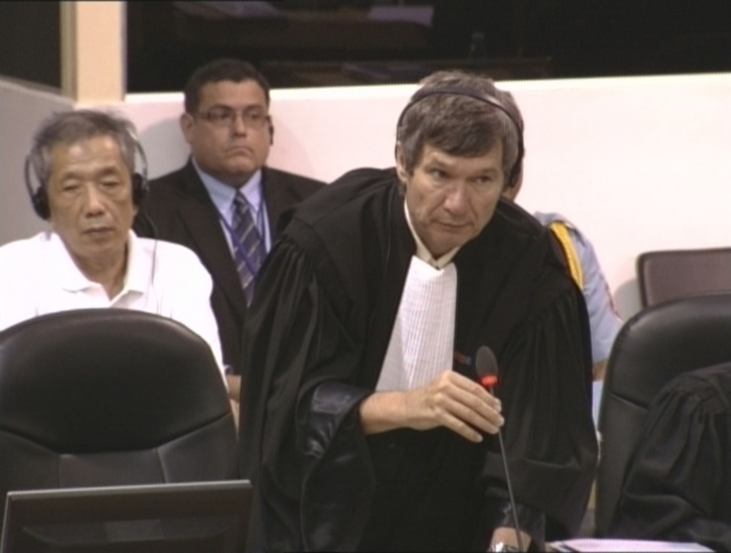 International defense lawyer François Roux during trial proceedings at the Extraordinary Chambers in the Courts of Cambodia. The accused, Kang Kek Iew (also known as Kaing Guek Eav or Duch) is in the background on the left.